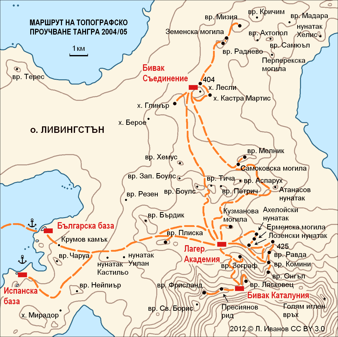 The route of topographic survey Tangra 2004/05. Source: Ivanov, L. and N. Ivanova. Antarctic: Nature, History, Utilization, Geographic Names and Bulgarian Participation. Sofia: Manfred Wörner Foundation, 2014. 368 pp. (in Bulgarian) ISBN 978-619-90008-1-6